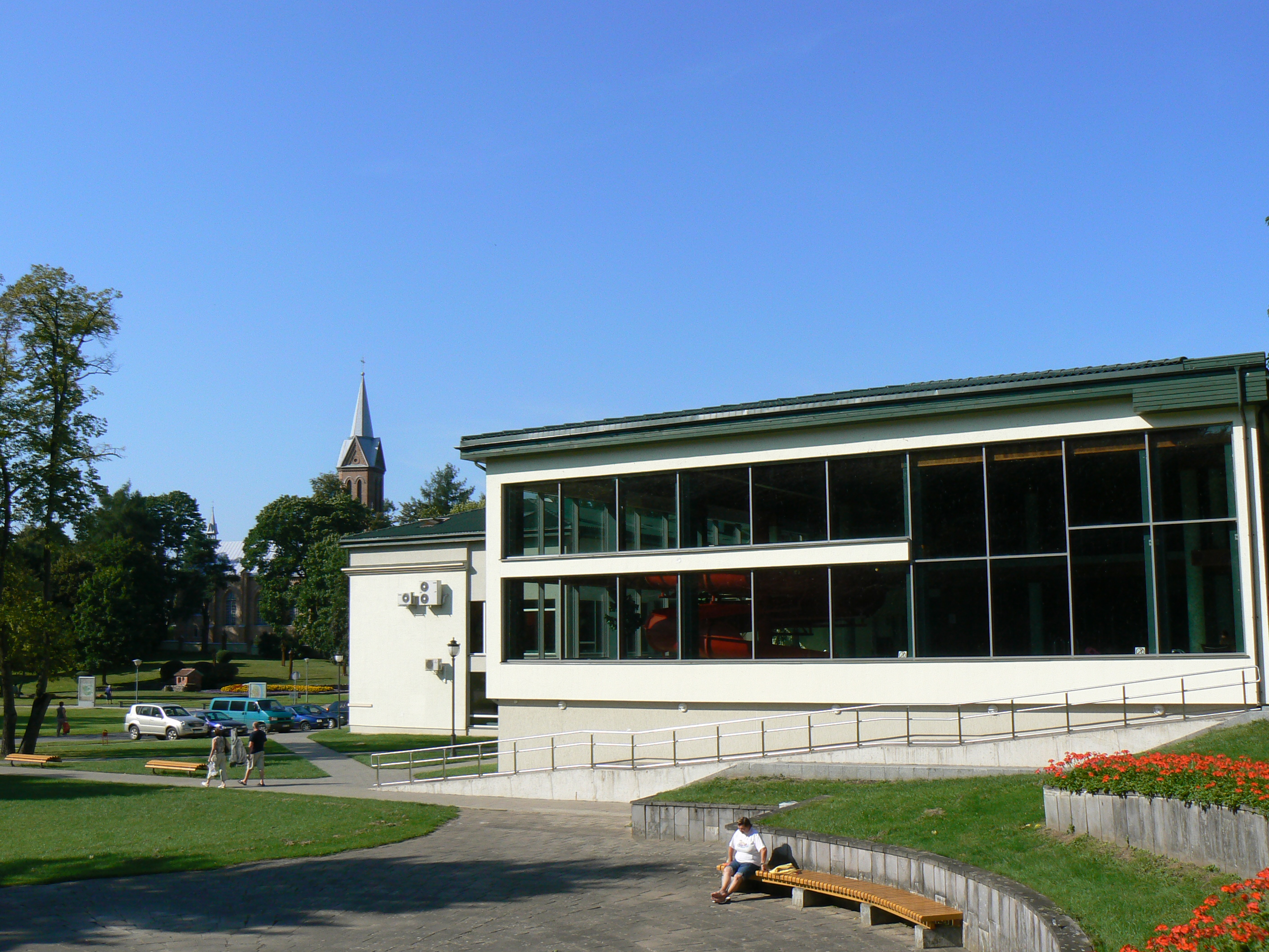 Spa Tulpė in Birštonas, Lithuania